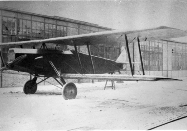 PictionID:43639918 - Catalog:16_004756 - Title:AGO (AGO FlugzeugwerkeAktien Gesellschaft Otto/ Aeroplanbau Gustav Otto & Alberti) SI - Filename:16_004756.TIF - - - - - Image from the Ray Wagner Collection. Ray Wagner was Archivist at the San Diego Air and Space Museum for several years and is an author of several books on aviation --- ---Please Tag these images so that the information can be permanently stored with the digital file.---Repository: San Diego Air and Space Museum